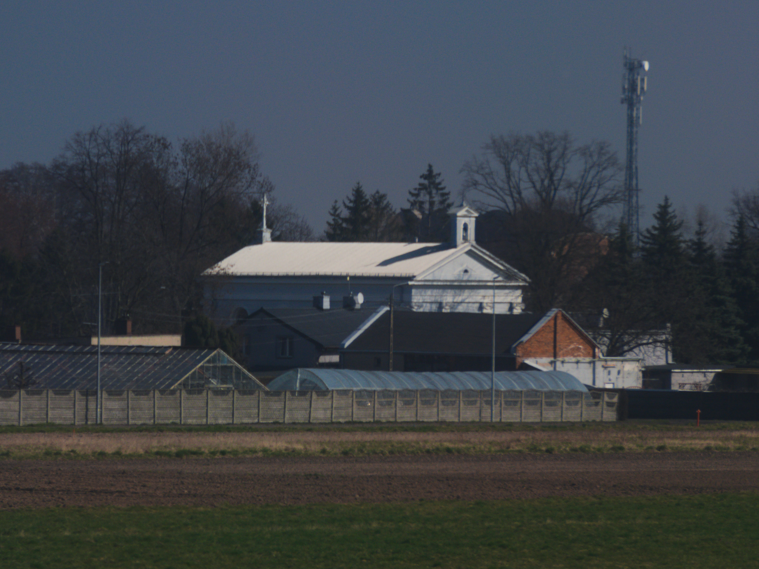 Most Sacred Heart of Jesus church in Ozorków, Łęczycka 30 street, seen from Hutnik train.